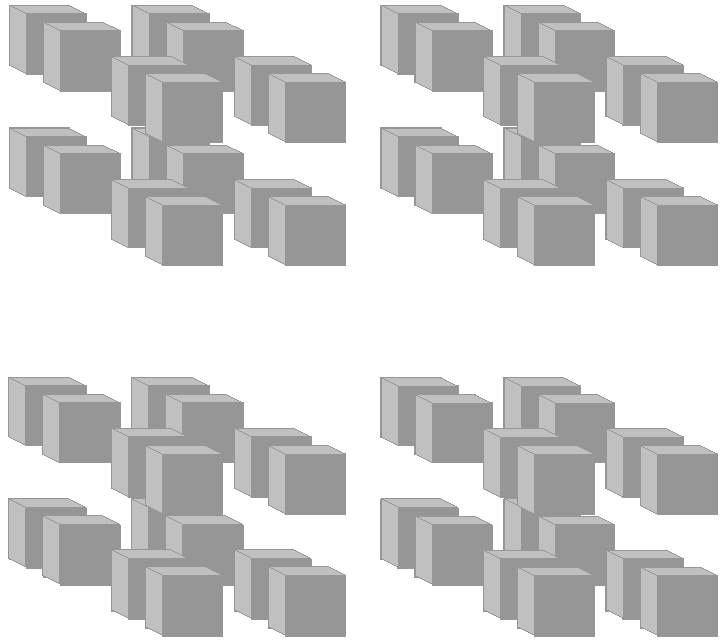 Cube of Cantor. Cantor set in 3 dimensions.